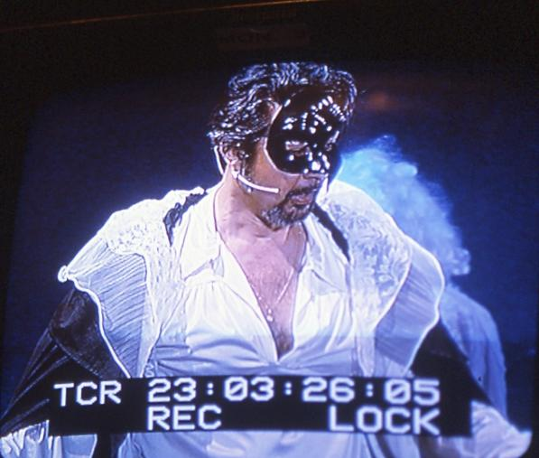 Monitor out of a Betacam SP playing video